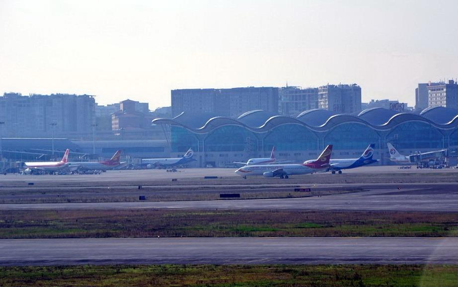 Air traffic movements have been increasing very rapidly.